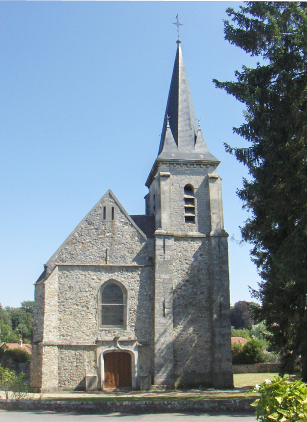 church Saint-Barthélémy of Mortefontaine, Oise, France